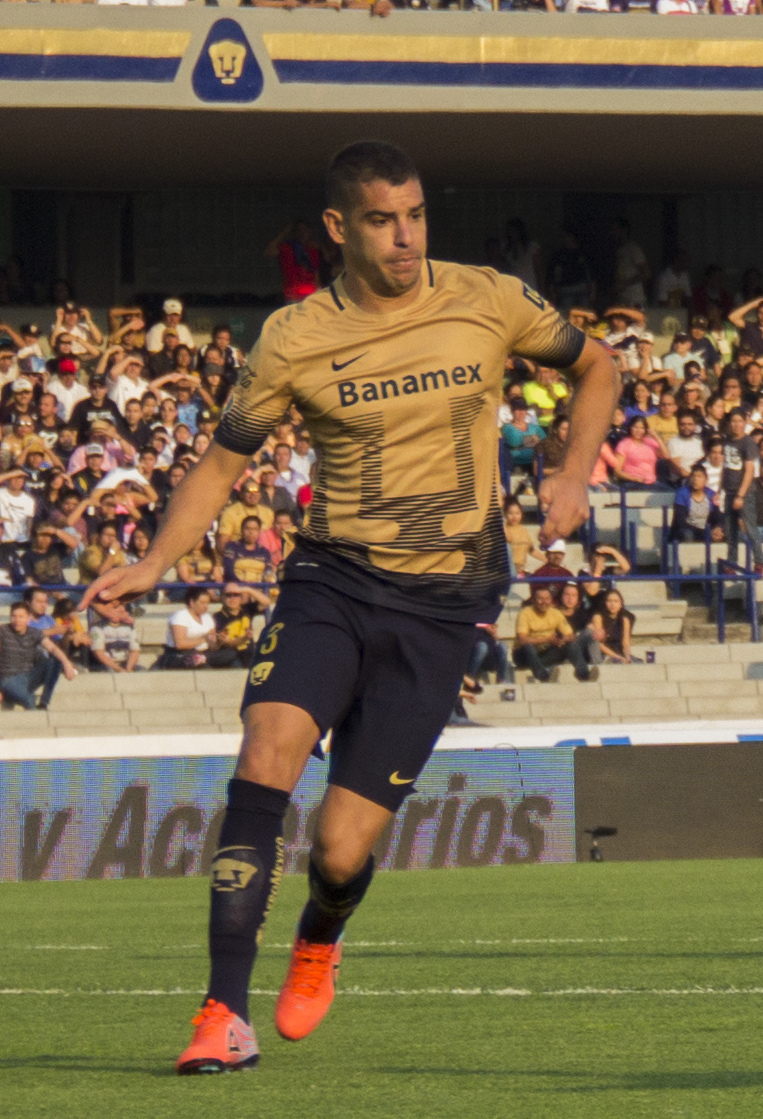 Pumas vs León